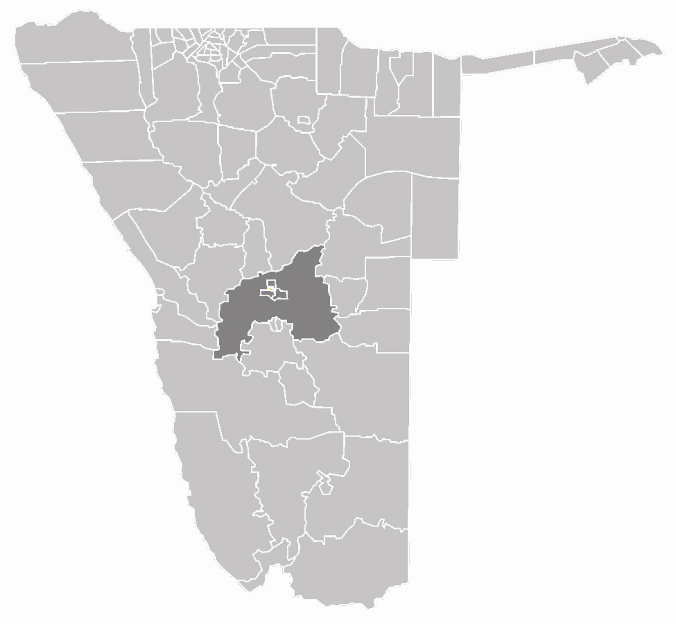 map of the Katutura East constituency within the Khomas region, Namibia